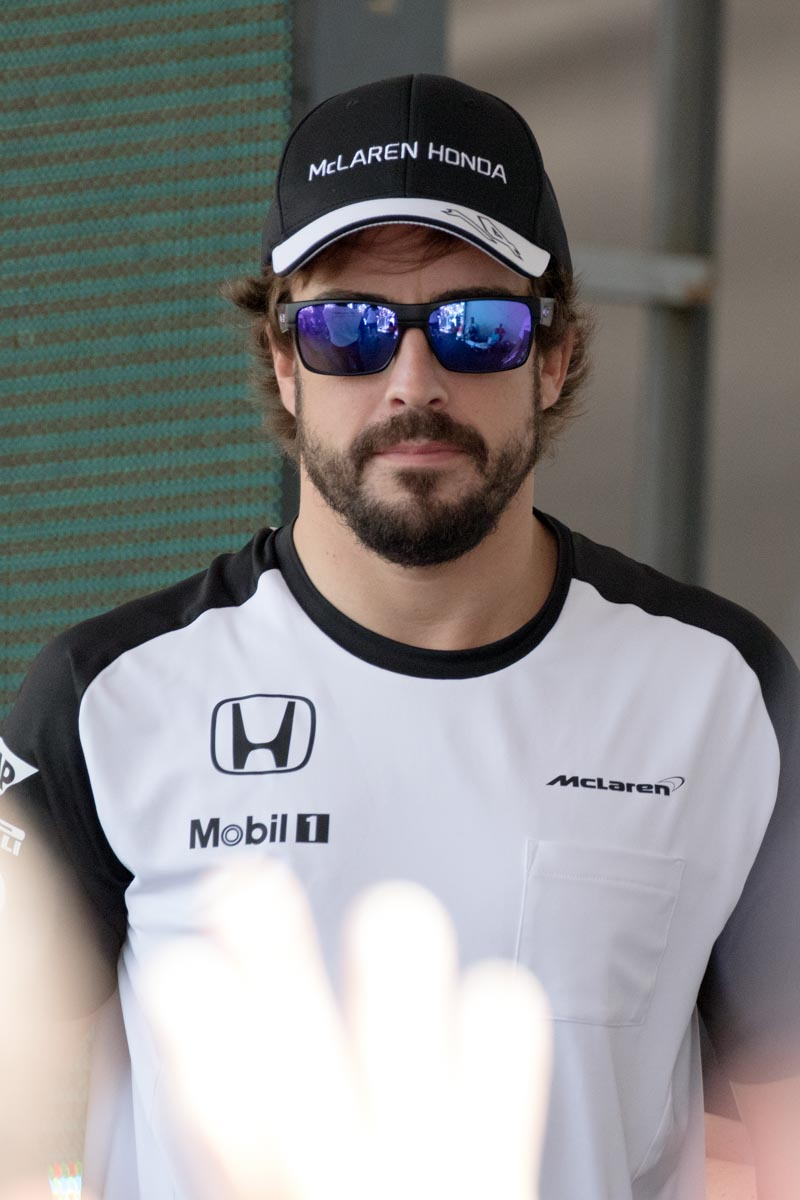 Formula One 2015 Rd.2 Malaysian GP: Fernando Alonso (McLaren)